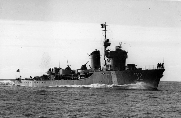 The Swedish destroyer HMS Mjölner during World War 2.